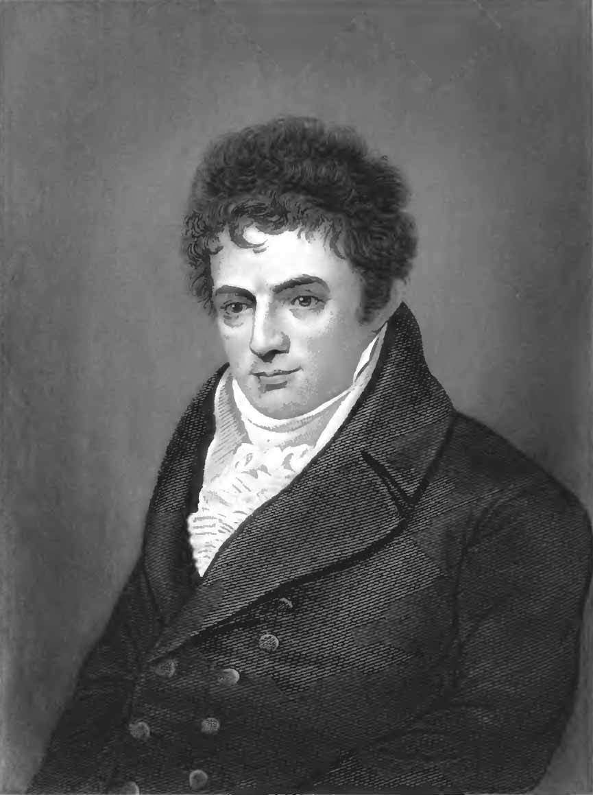 Portrait engraving of Robert Fulton, steamboat innovator.